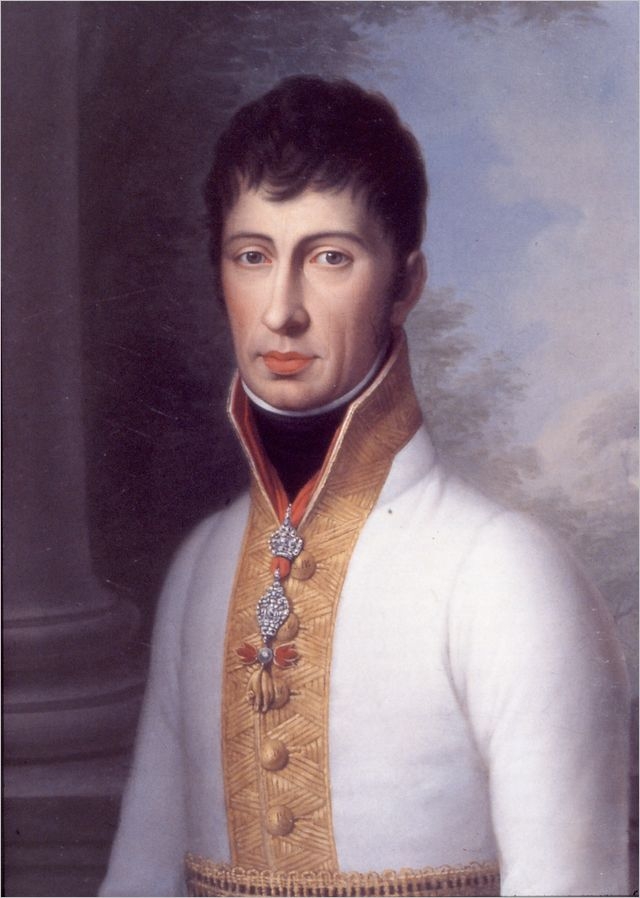 Archduke Franz Joseph Karl Ambrosius Stanislaus of Austria-Este (1779–1846), from 1814 Duke Franz IV of Modena and Reggio, from 1829 Duke of Massa and Prince of Carrara.